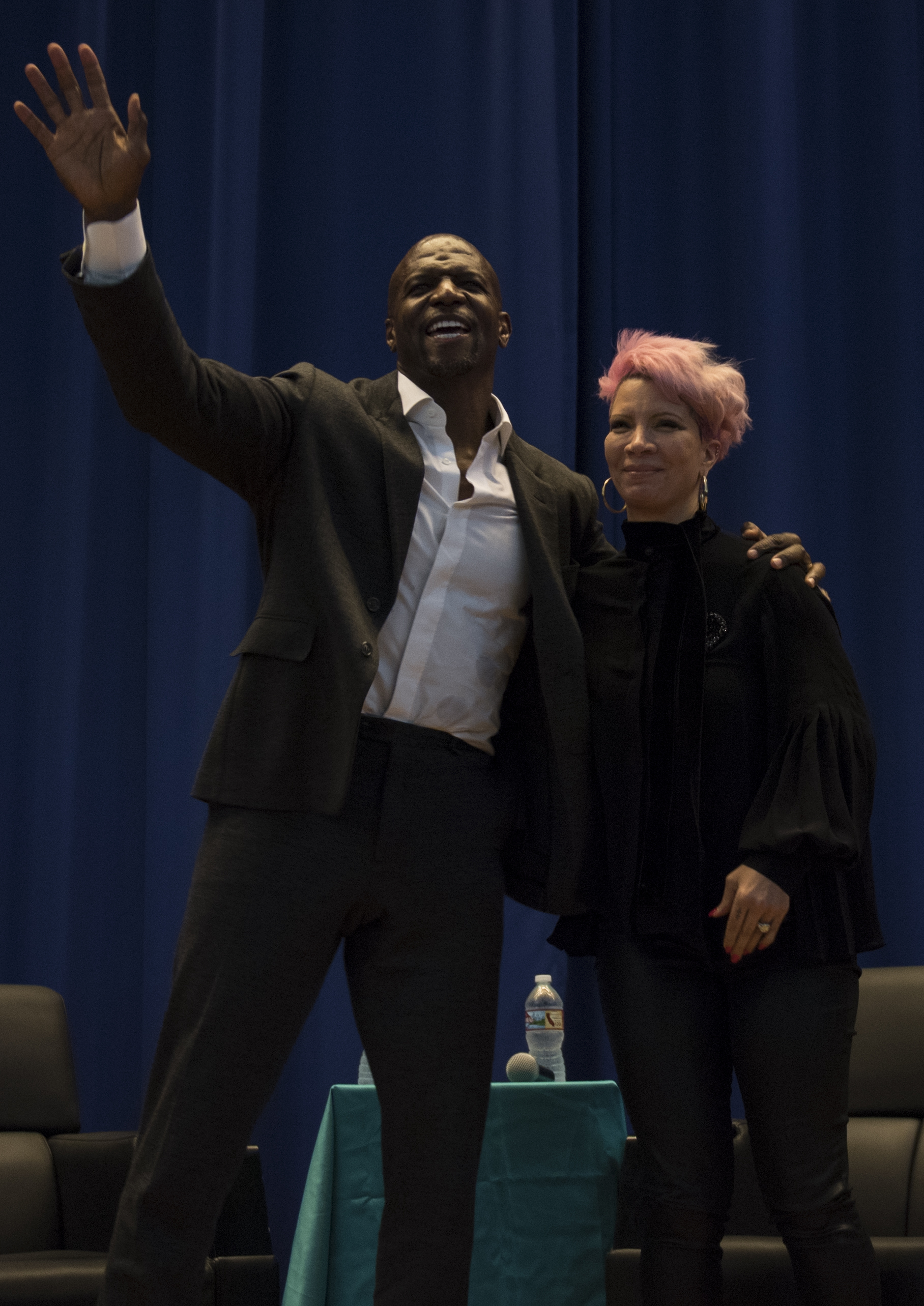 Terry Crews and his wife, Rebecca, thank Airmen and Soldiers after they shared their experiences with sexual assault and harassment at Osan Air Base, Republic of Korea, May 31, 2019. The Crews’ traveled through the peninsula visiting U.S. military installations coordinated by the 8th Army Sexual Harassment/Assault Response and Prevention unit. (U.S. Air Force photo by Staff Sgt. Ramon A. Adelan)